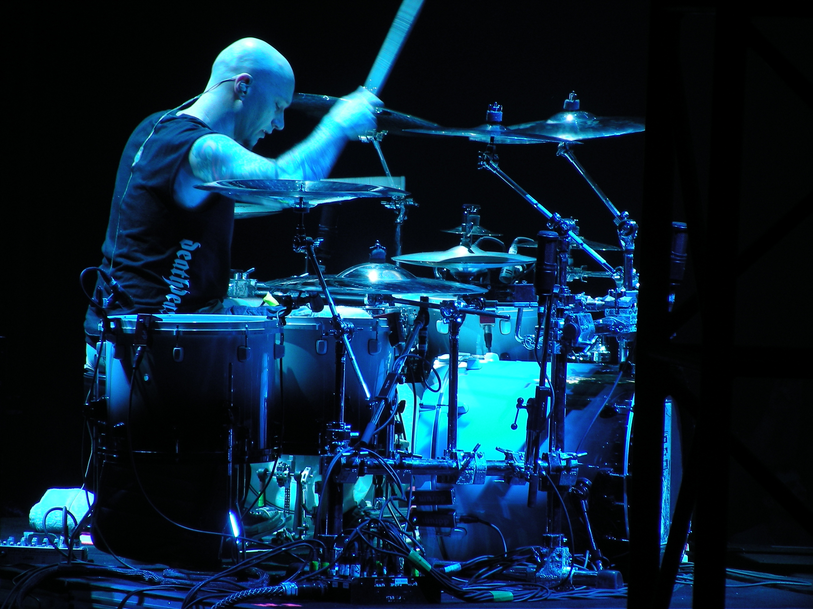 Dave McClain of Machine Head at support band for Metallica concert on 2009-03-30 (Death Magnetic Tour, Ahoy Rotterdam)